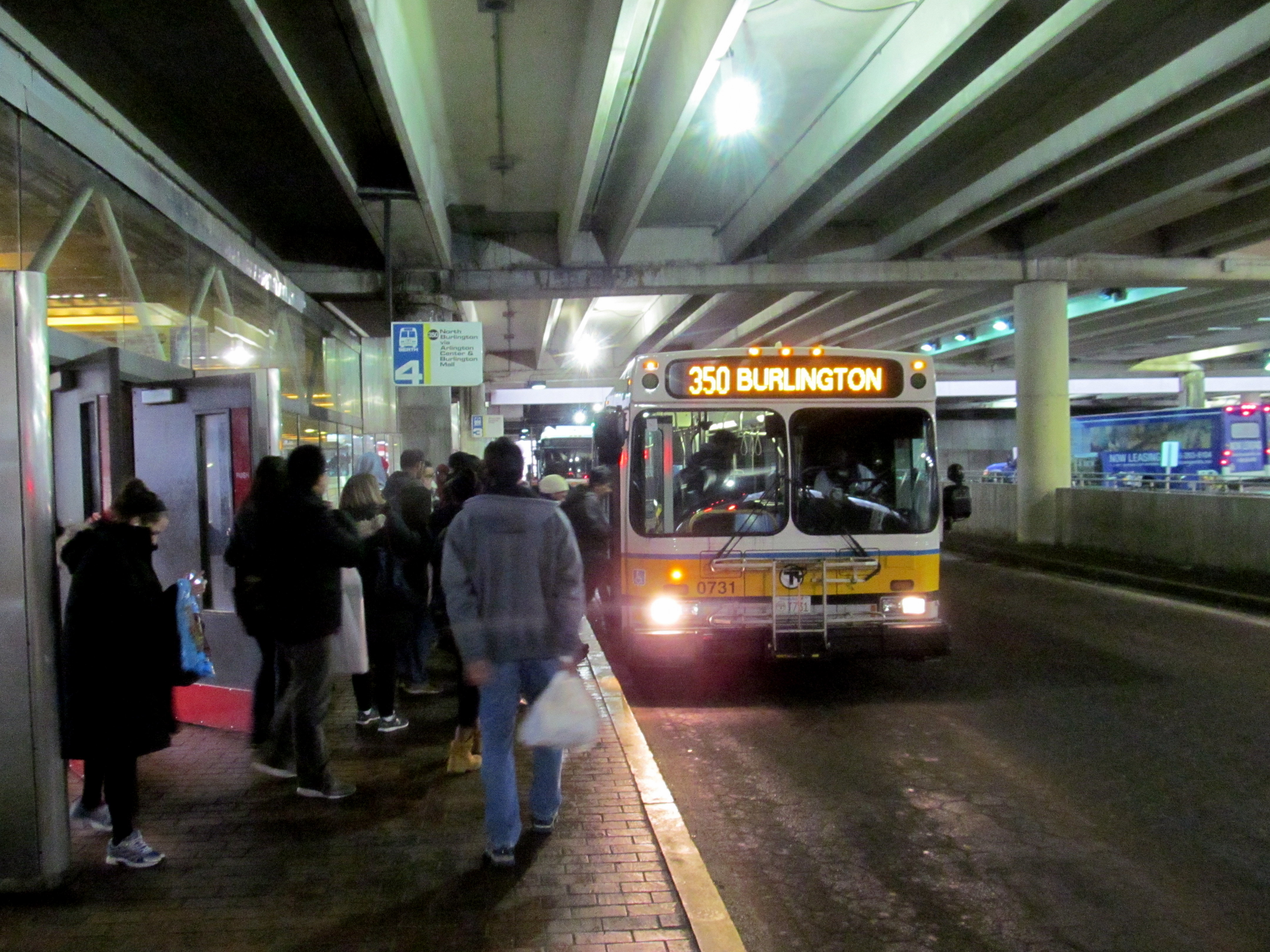 MBTA route 350 bus boarding at Alewife station in March 2017